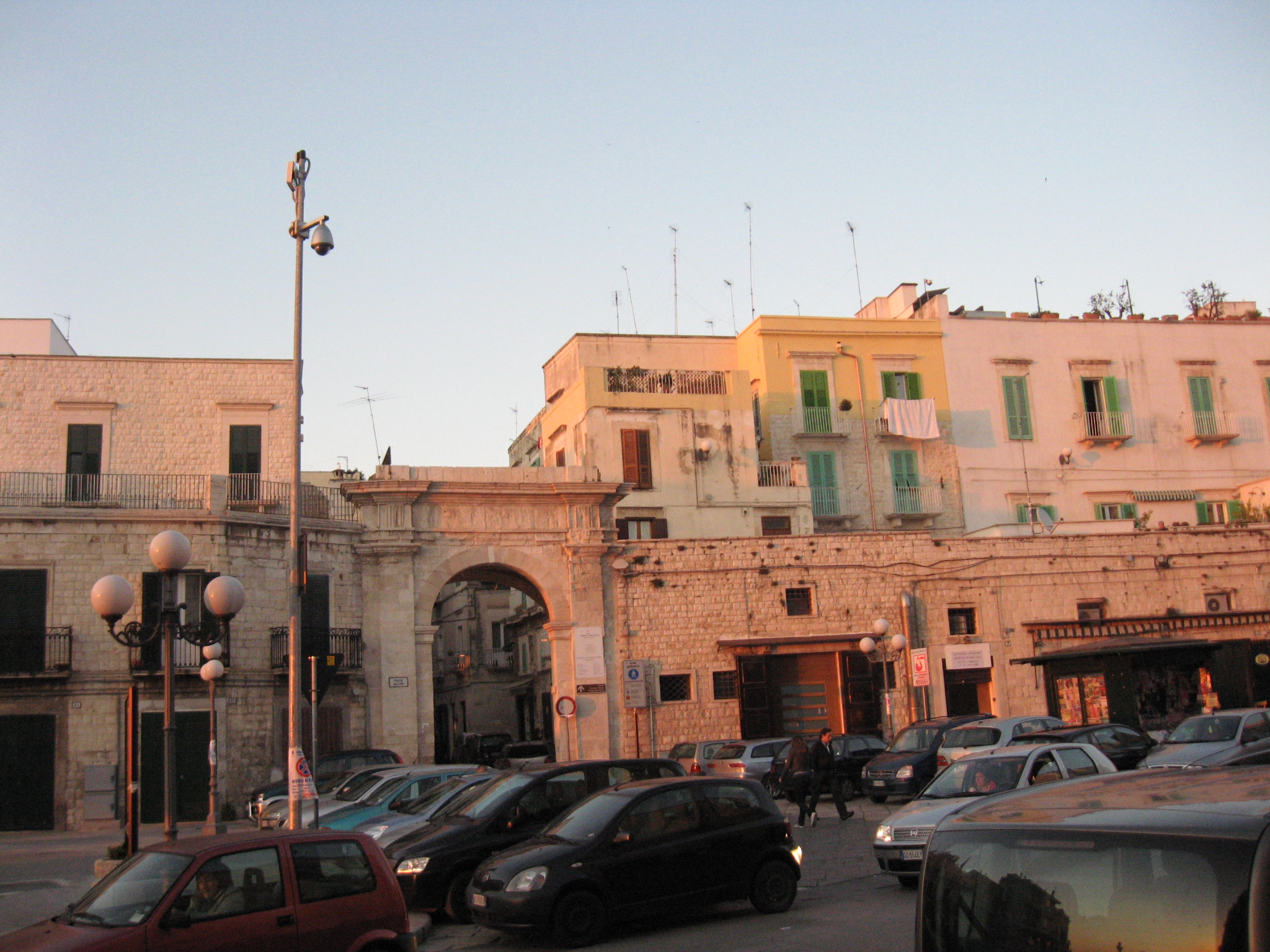 The entrance to the old city (Arco della Terra)